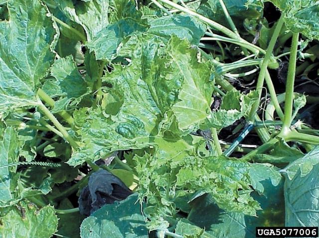 Effect of squash mosaic virus on squash leaves.